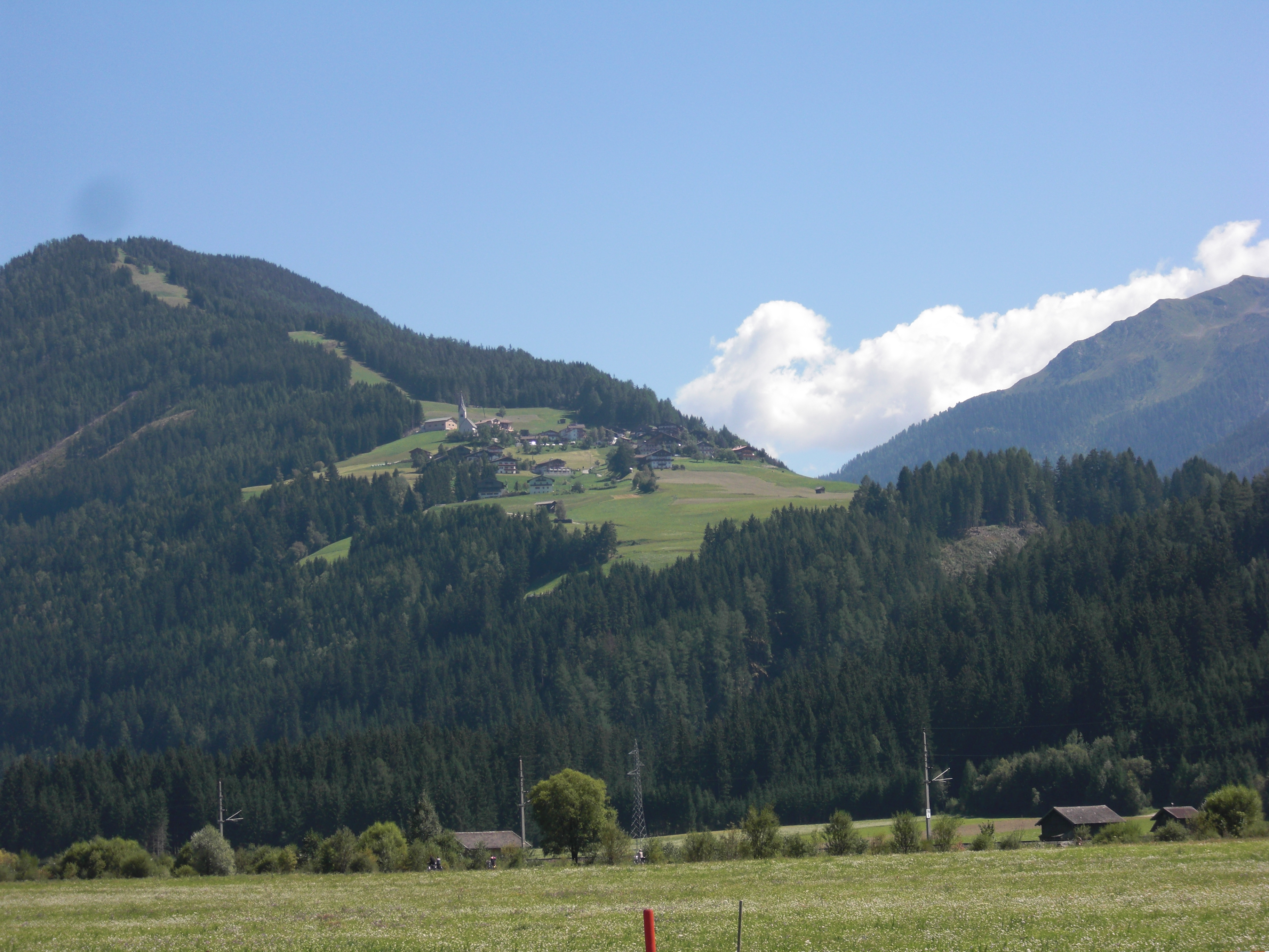 St. Oswald in East Tyrol (Austria).